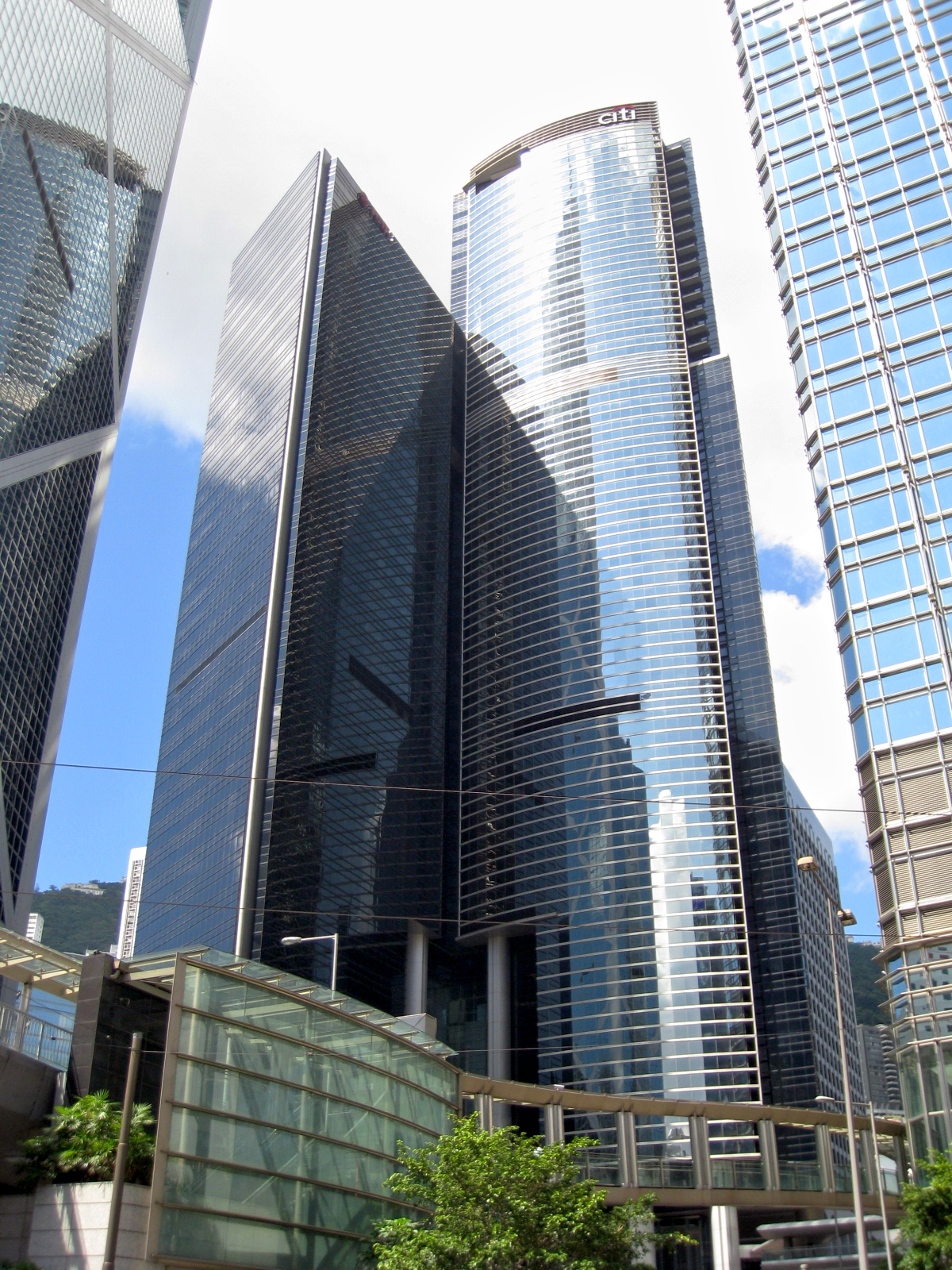 HK Citibank Tower 花旗銀行大廈